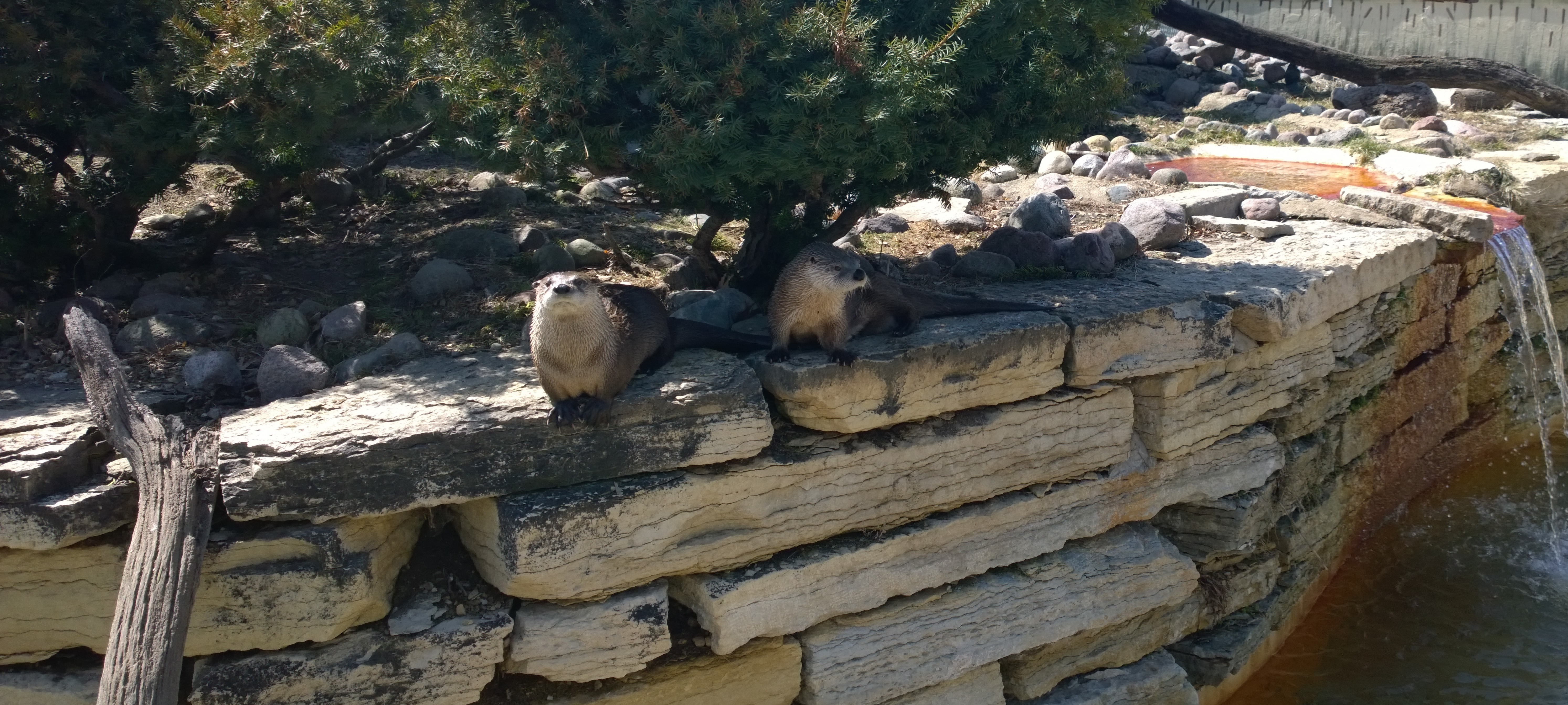 Pair of Lontra canadensis in captivity in Phillips Park Zoo in Aurora, Illinois